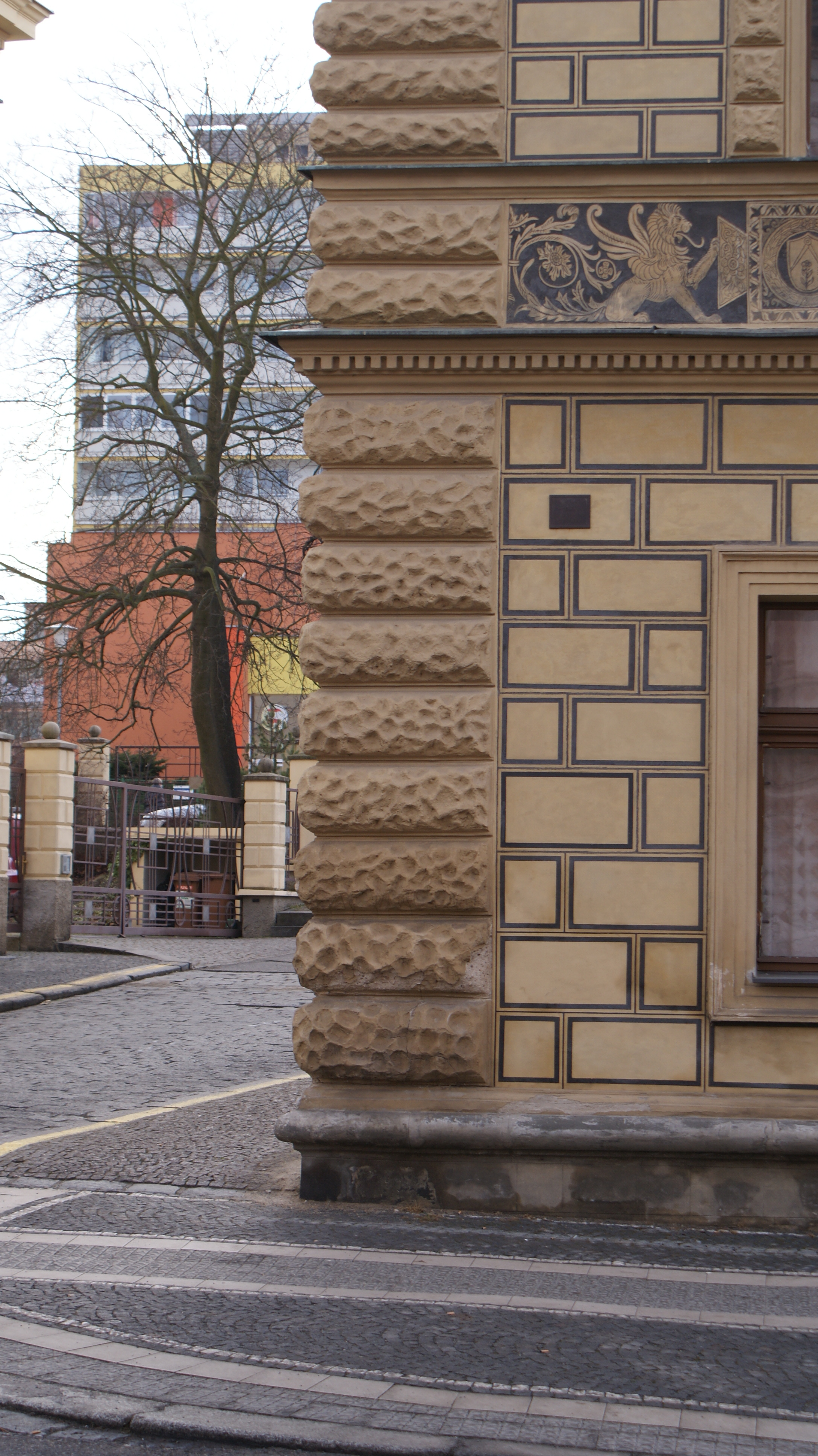 Wiehl - House No 560, Wilsonova Str., in Slaný, Kladno District, Central Bohemian Region, Czech Republic.